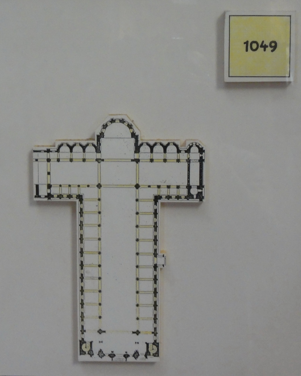 Basilique Saint-Remi de Reims (1049)